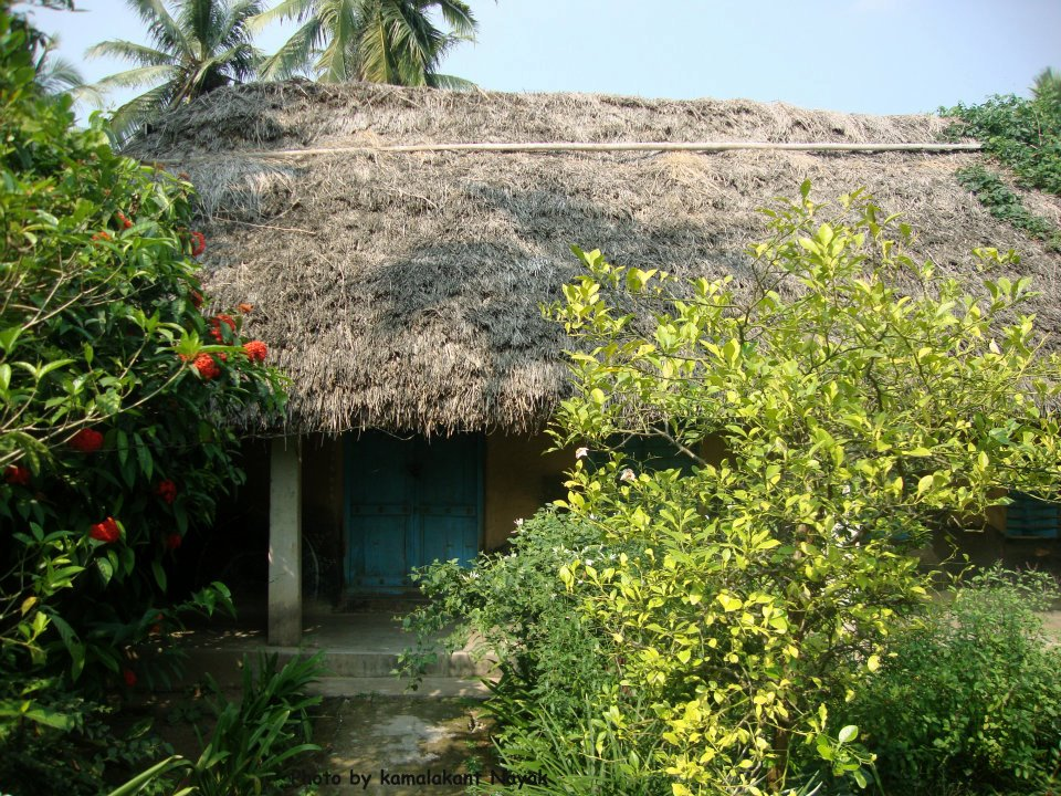 madhusudan das home ଓଡ଼ିଆ: ମଧୁସୂଦନ ଦାସ